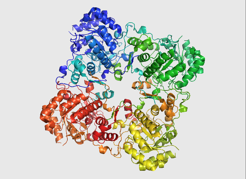 Cartoon representation of the IMPDH tetramer using the structure of the protein registered with 1PVN